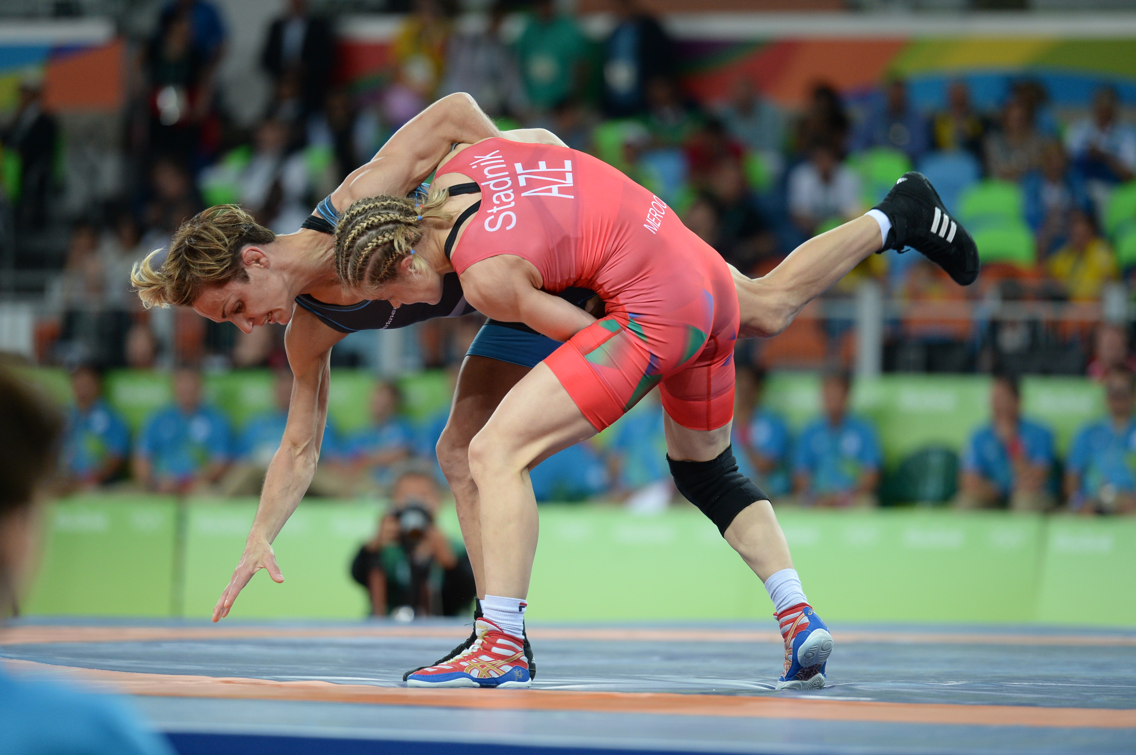 Wrestling at the 2016 Summer Olympics, Stadnik vs Matkowska